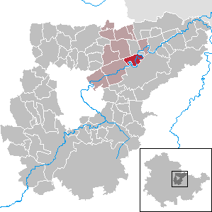 Niederroßla in Thuringia - District Weimarer Land